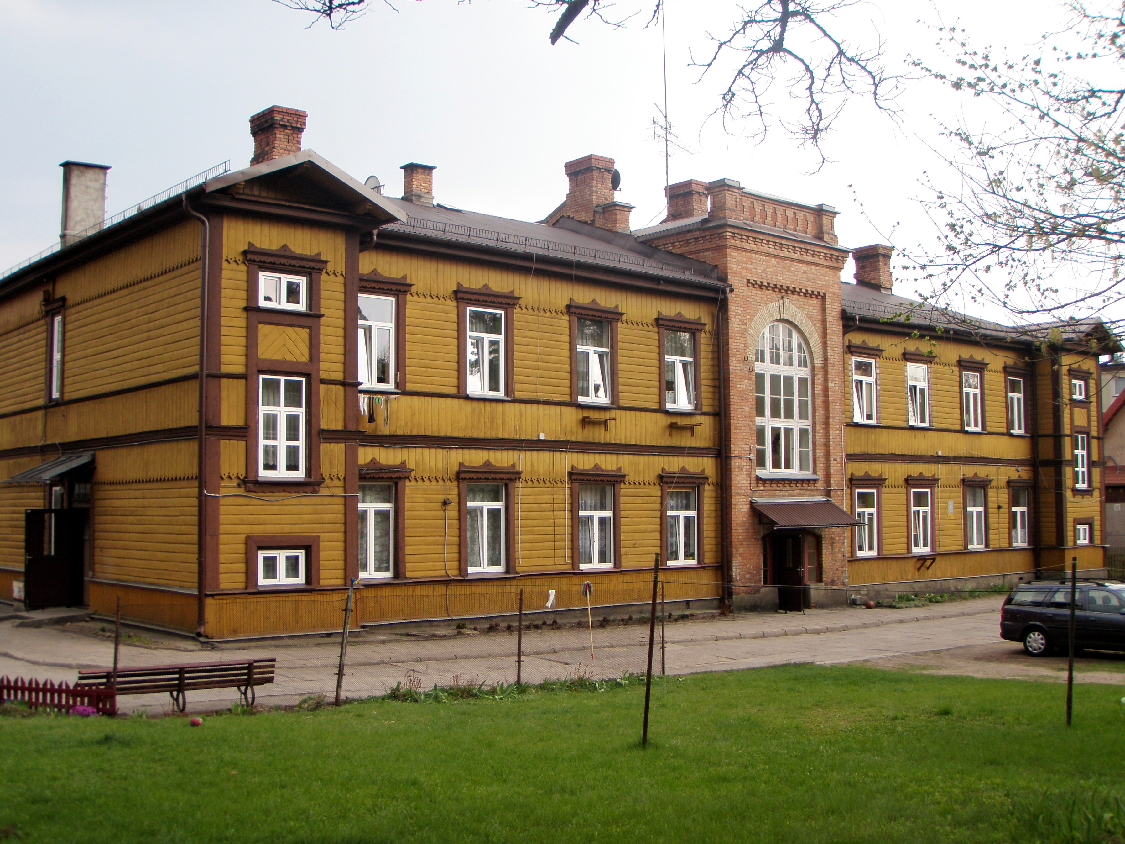 Former barracks in Augustów, Poland.